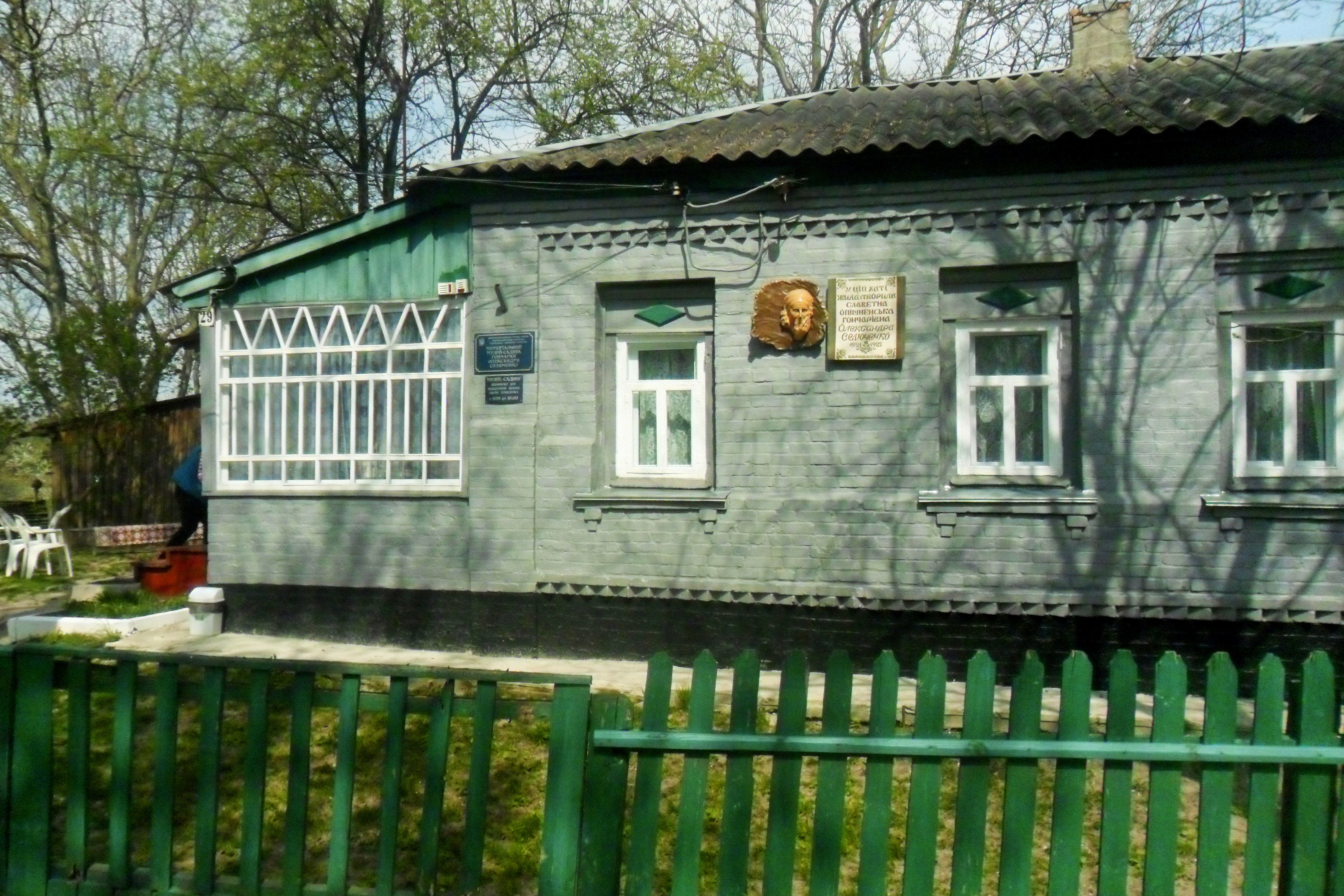 Building of a memorial museum of Aleksandra Selyuchenko